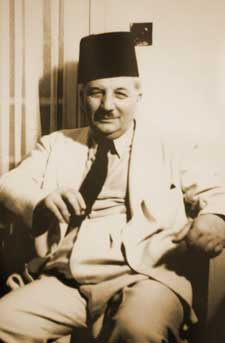 Riadh Solh (1894-1951), Lebanese polititian appointed several times as chief of government.